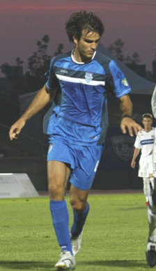 Defender Cristiano Dias of Miami FC (left), guards the net against Vancouver Whitecaps forward Charles Gbeke.